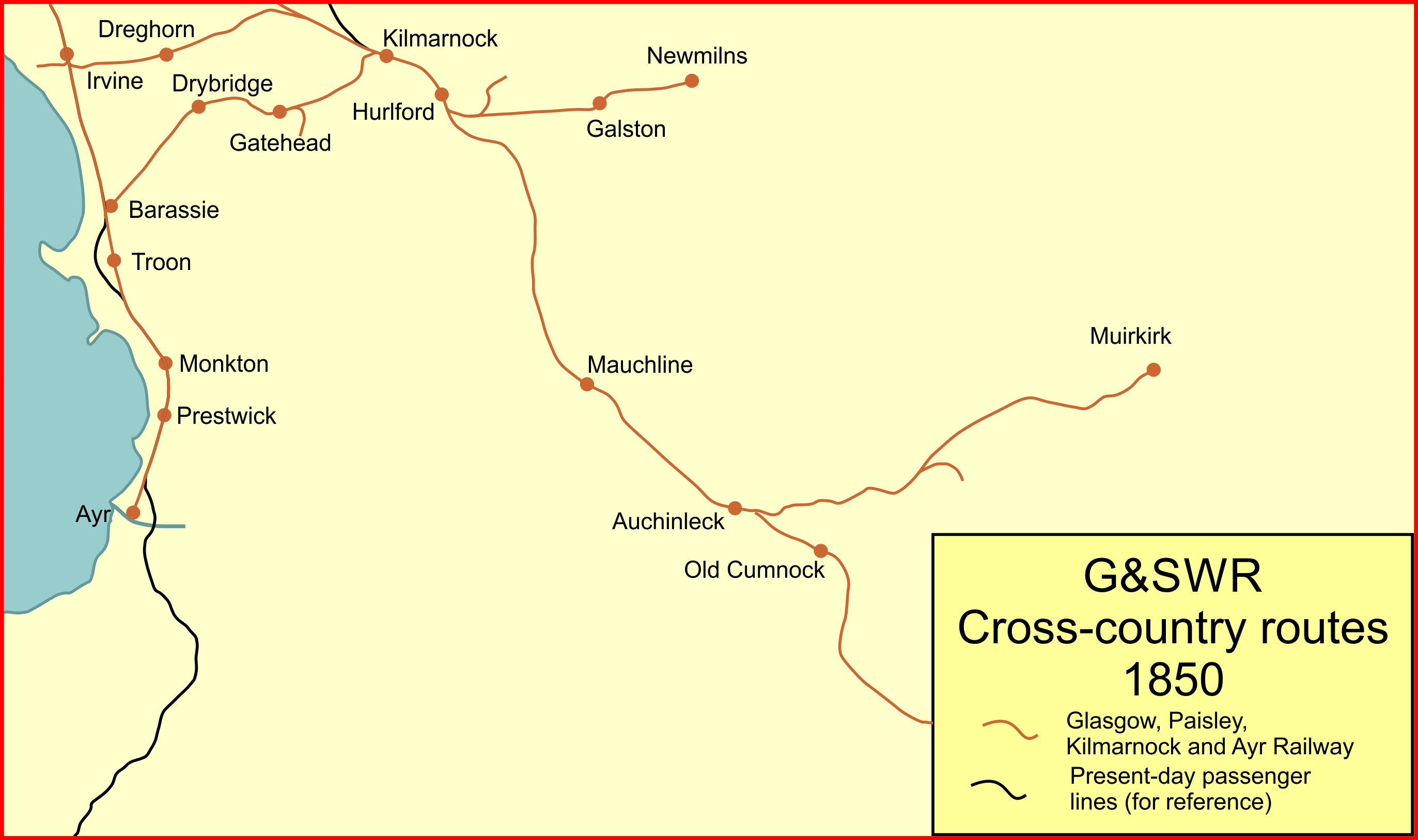 System map of cross-country lines of the Glasgow and South Western Railway in 1850